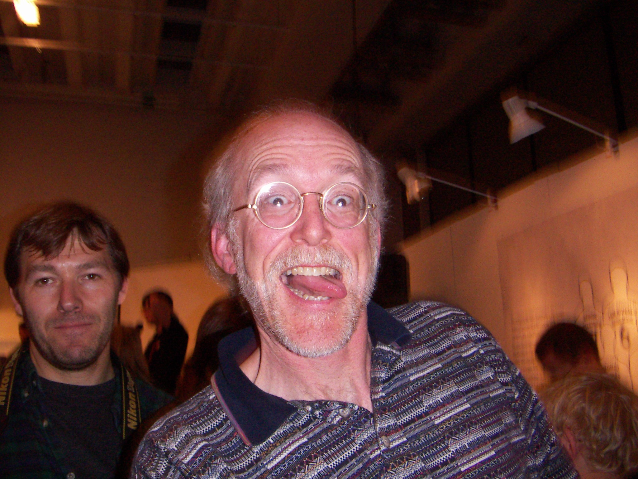 Don Rosa pulls a face at the Gothenburg Book Fair in Sweden 2004.